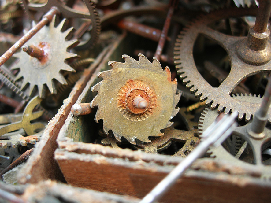 Cogwheels (for clocks)